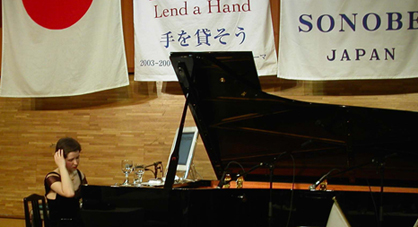 Marzena KOMSTA at Concert in Rotary Club Sonobe, Japan. January 2004